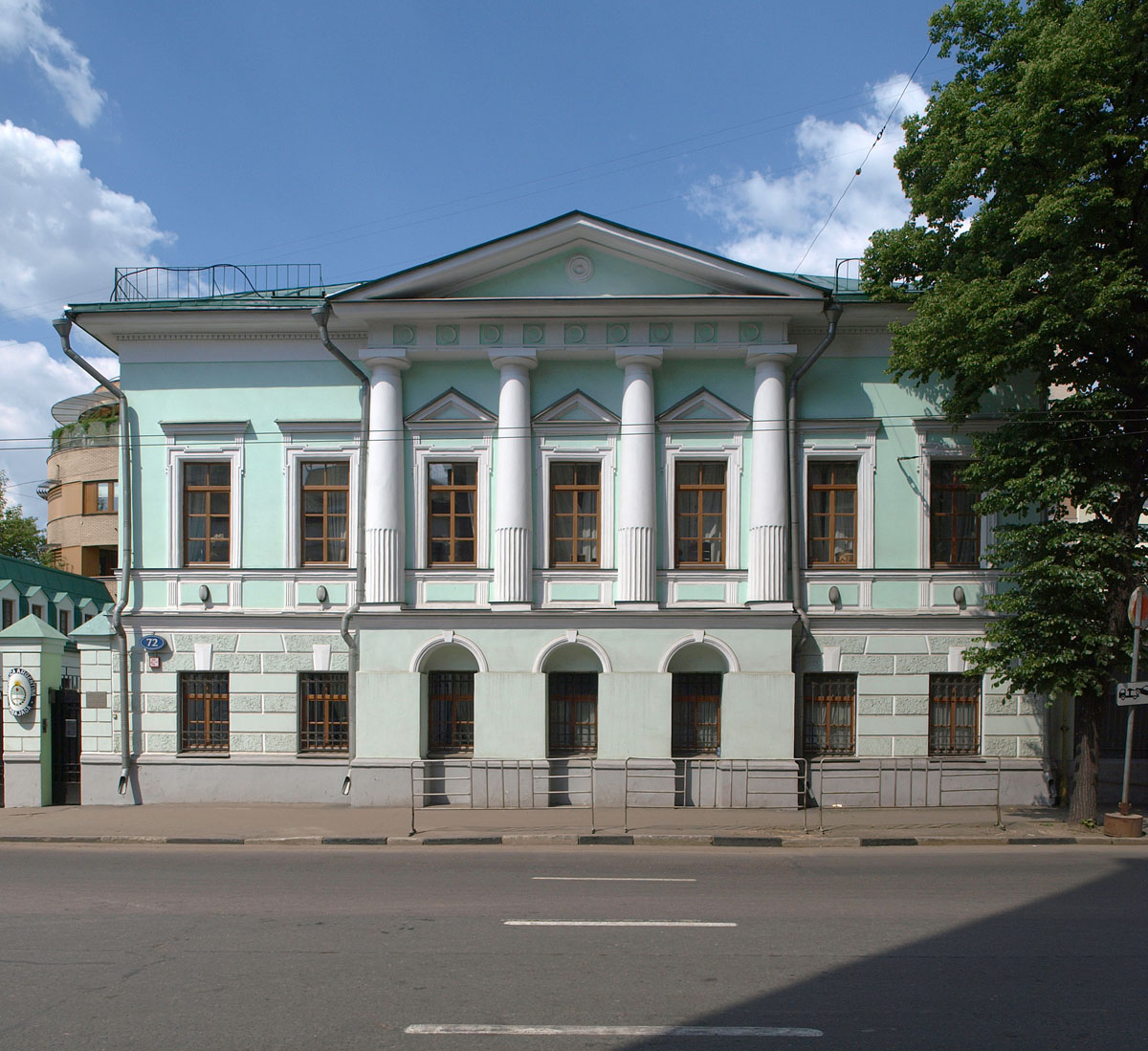 (Right:) Embassy of Argentina in Russia - 72 Bolshaya Ordynka Street, Moscow